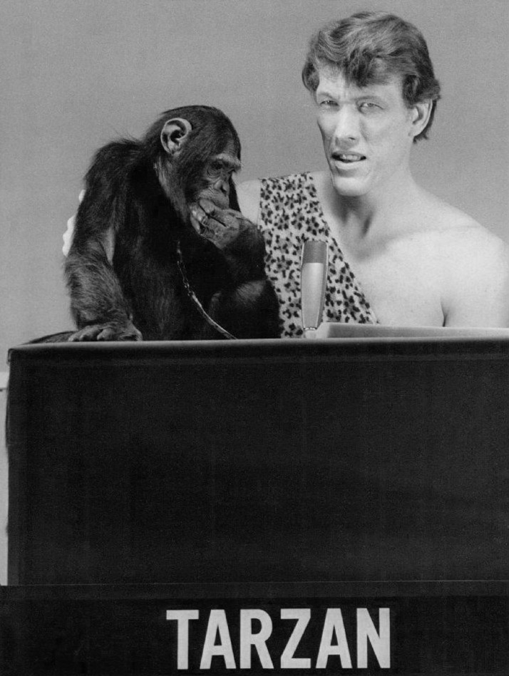 Photo of Ted Cassidy as Tarzan and Cheeta from the television game show Storybook Squares. Cassidy was best known for his role as Lurch the butler on The Addams Family. The program was a children's version of the adult game show Hollywood Squares.